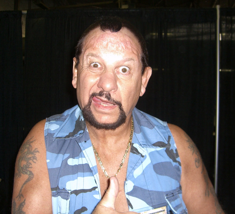 Professional wrestler Brian Wickens (aka Bushwacker Luke) photographed on October 18, 2009 at the Big Apple Convention in Manhattan. This photo was created by Luigi Novi. It is not in the public domain, and use of this file outside of the licensing terms is a copyright violation.